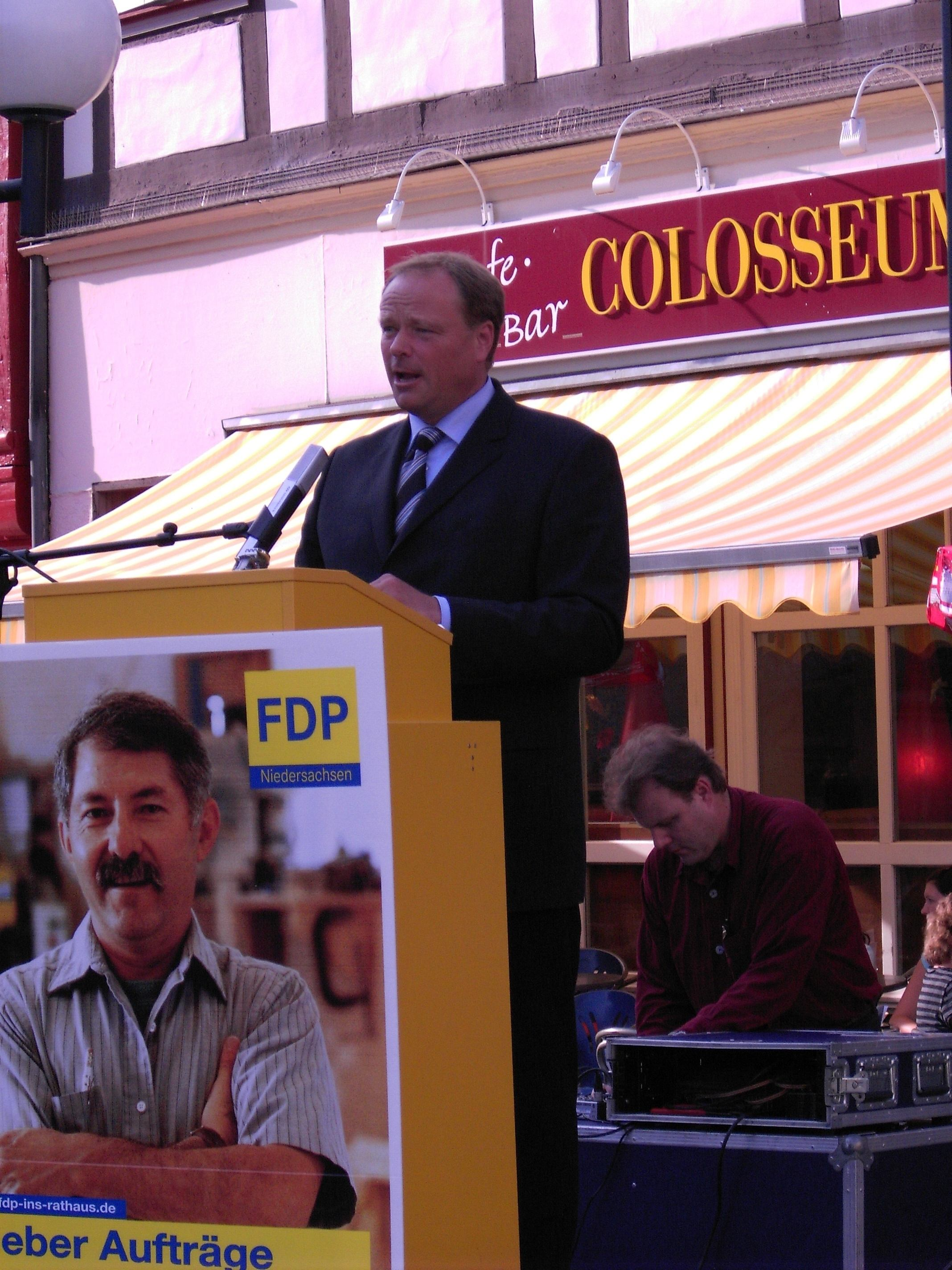 Dirk Niebel, secretary general of the FDP (liberal party), speaks at the start of the municipal election campaign in Lower Saxony at the main market in Göttingen, 17th August 2006.